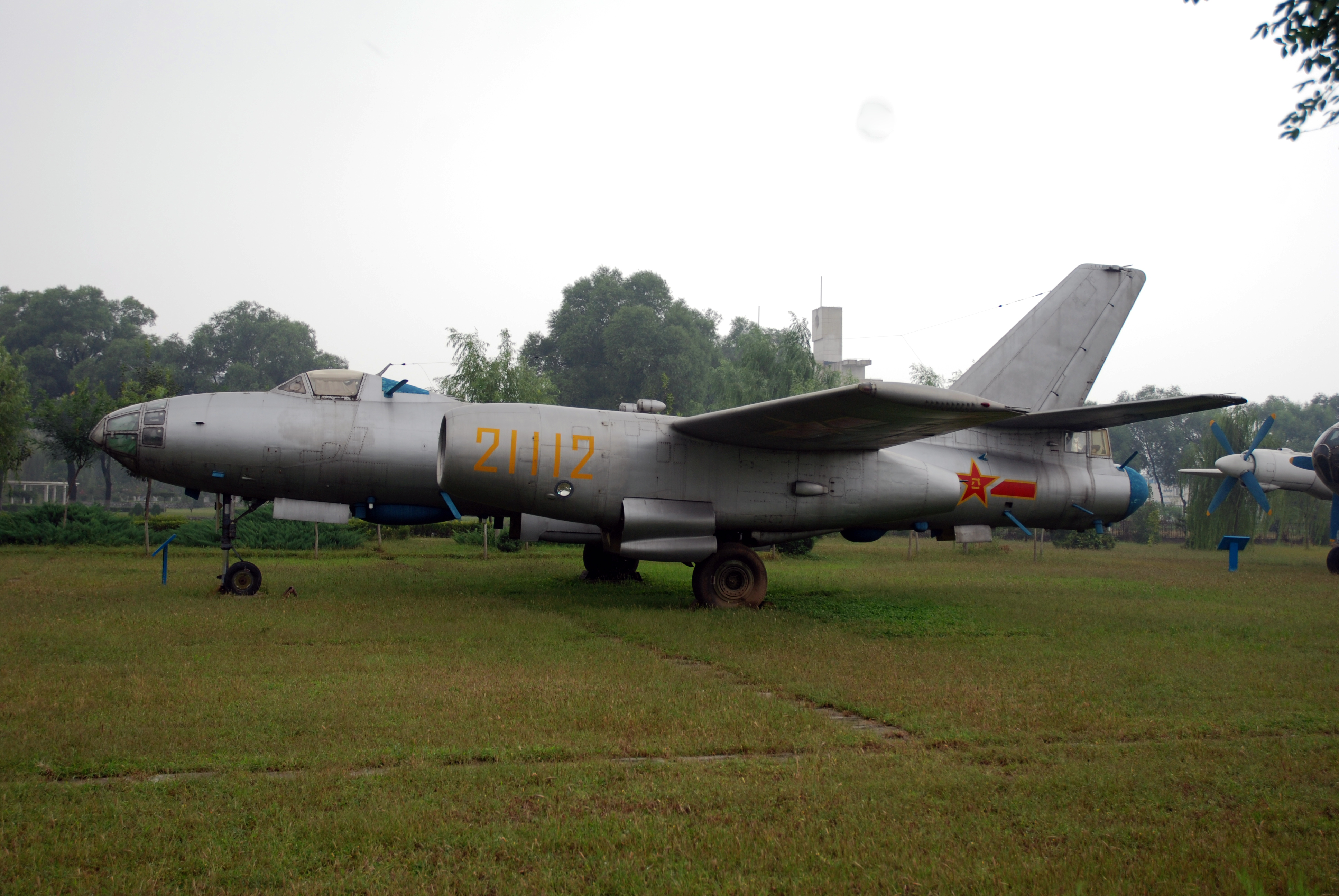 China Aircraft Museum,Sep 2008